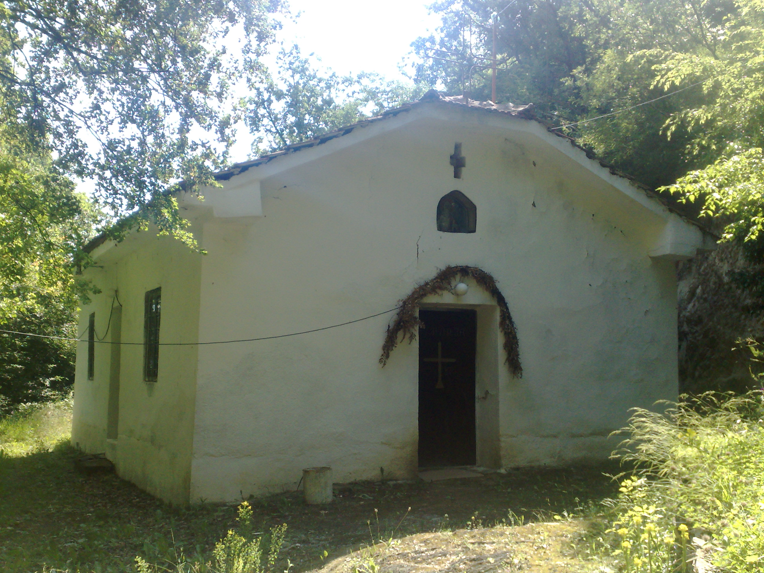 Church of St.Ellyah in Karabuniste, Macedonia